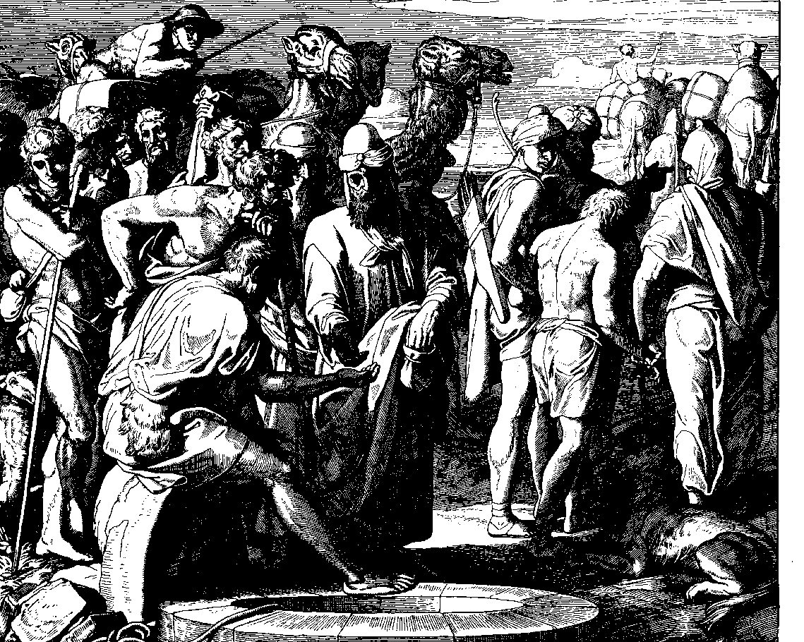 Woodcut for "Die Bibel in Bildern", 1860. Joseph Is Sold into Egypt